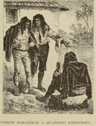 Uskoks (19th century)